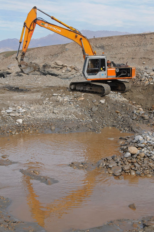 The following is the author's description of the photograph quoted directly from the photograph's Flickr page. "FEYZABAD, Afghanistan -- An Afghan worker works on the foundation for the new bridge over the Kokcha River here, Jan. 22. The Federal Republic of Germany and the people of Feyzabad are building the bridge, which began construction in December of 2008. "